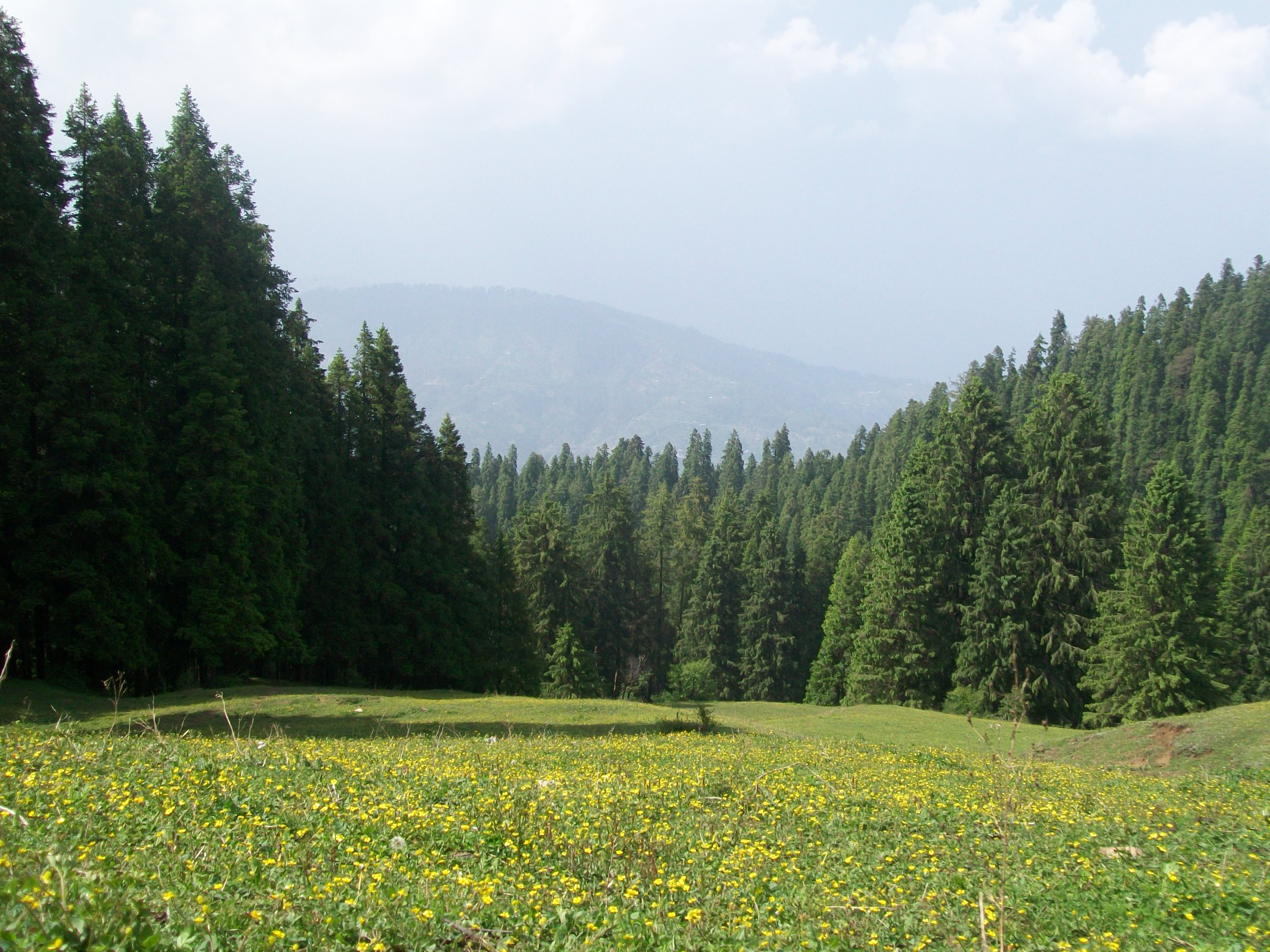 giriganga kharapather